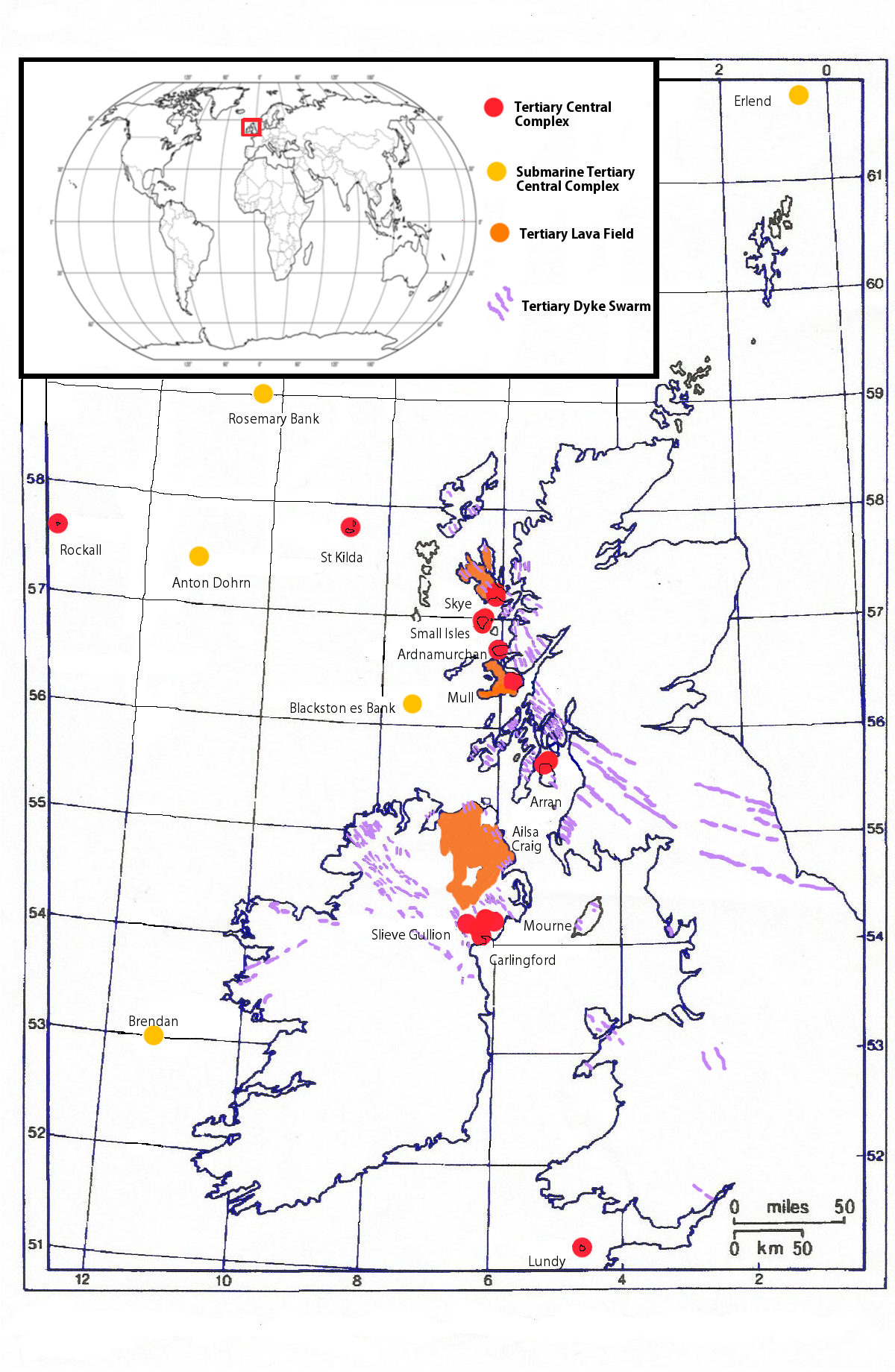 Location of British Tertiary; central complexes, submarine central complexes, dyke swarms, lava fields. On a map of the UK, with UK location within context of the World map attached.